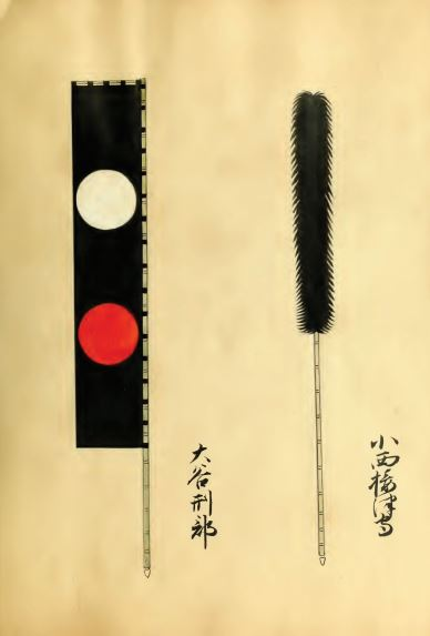 Battle Standard (black feather pole); Banner (white and vermilion circles on black)